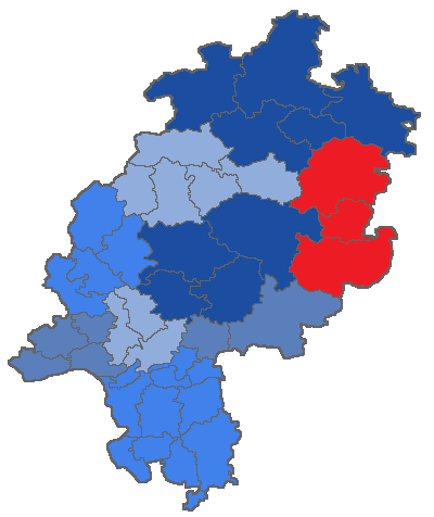 Map of the district court Fulda in Hesse